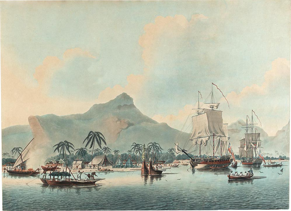 (Updated March 2020) This is the third print of four in Cleveley's well-known series from Captain James Cook's third voyage to the Pacific. It shows the 'Resolution' and 'Discovery' off Huaheine. Among the details, either one or both of the conical structures ashore are Cook's astronomical observation tents. According both to the captions on the prints and to the publisher's advertisement, original drawings were made during the voyage by James Cleveley, carpenter in the 'Resolution', and then turned into finished images by his brother John after James's return. Sets of titled engravings were produced by Francis Jukes and published by Thomas Martyn. Some doubts have been cast on whether these are based on original drawings by James as they contain details not accurate to the Pacific at the time, but rather taken from its wider European iconography (see Rüdiger Joppien and Bernard Smith, 'The Cleveley problem', Vol. III, pp. 216-221 in 'The Art of Cook's Voyages' [3 Vol.s, Yale UP 1988]). The other three views show 'View of Morea, one of the Friendly Islands' (Moorea today being called Eimeo), 'View of Charlotte Sound in New Zealand' (actually a view in Matavai Bay, Tahiti), 'View of Owhyhee [Hawaii], one of the Sandwich Islands' (also known as 'The Death of Cook': see PAH7776). Three oil paintings of these views -excluding the last - are in the NMM collections; BHC1838 (the present example), BHC1896 and BHC1939, but are probably copies after the prints, not Clevelely's originals for them which are more likely to have been watercolours: he did paint in oil, but was more generally a draughtsman and watercolourist.